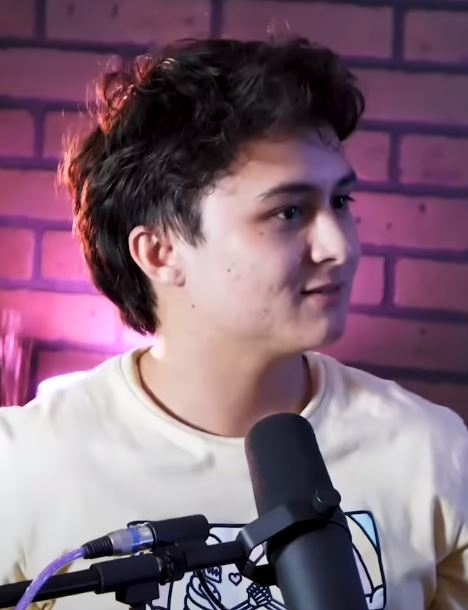 YouTuber Michael Reeves in 2019